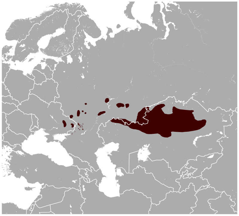 Geographical distribution of the Bobak Marmot Marmota bobak. The map was created using the Generic Mapping Tools, GMT, version 5.1.2.